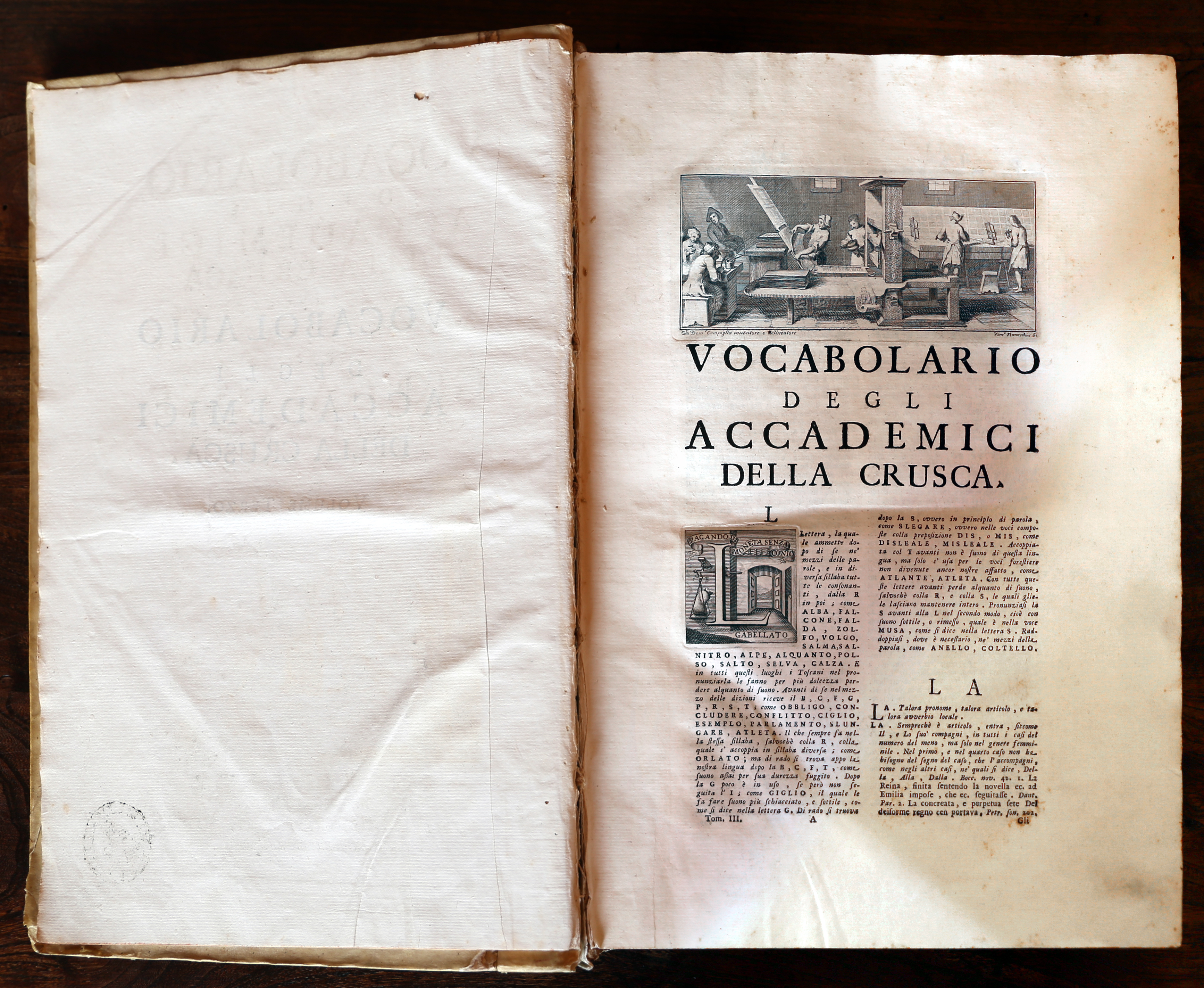 Accademia della Crusca